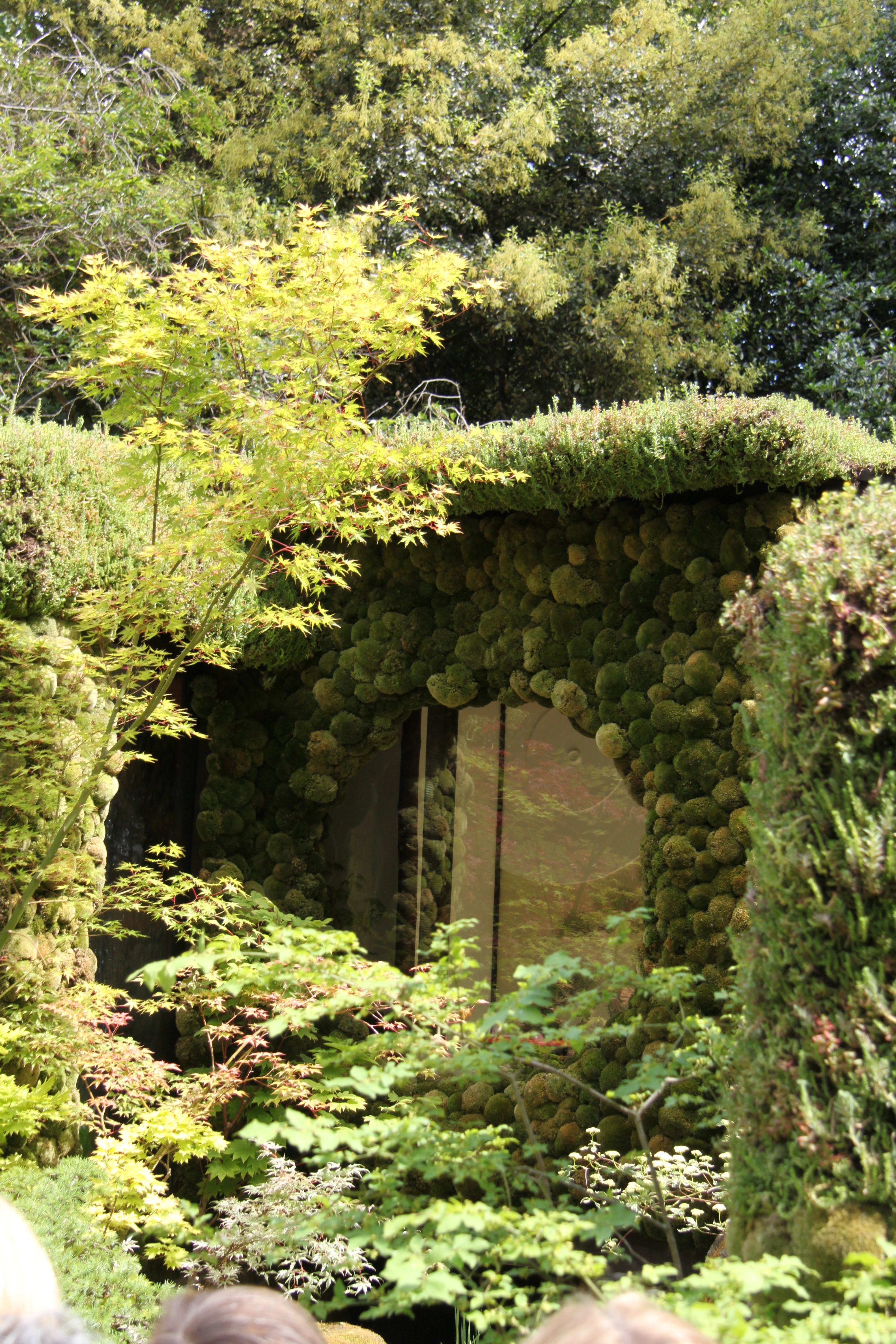 'Togenkyo' - A Paradise on Earth at RHS Chelsea Flower Show. Designed by Ishihara Kazuyuki, won the Gold Medal award for Best Artisan Garden.